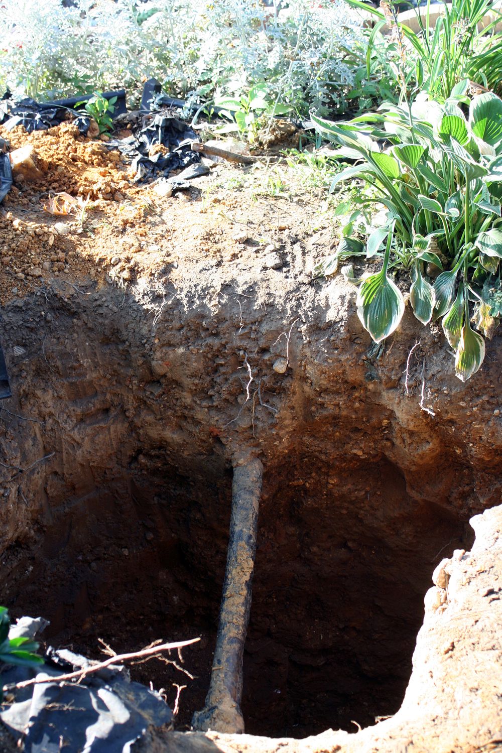 An excavation revealing a lead water main running to a house serviced by the DC Water And Sewer Authority